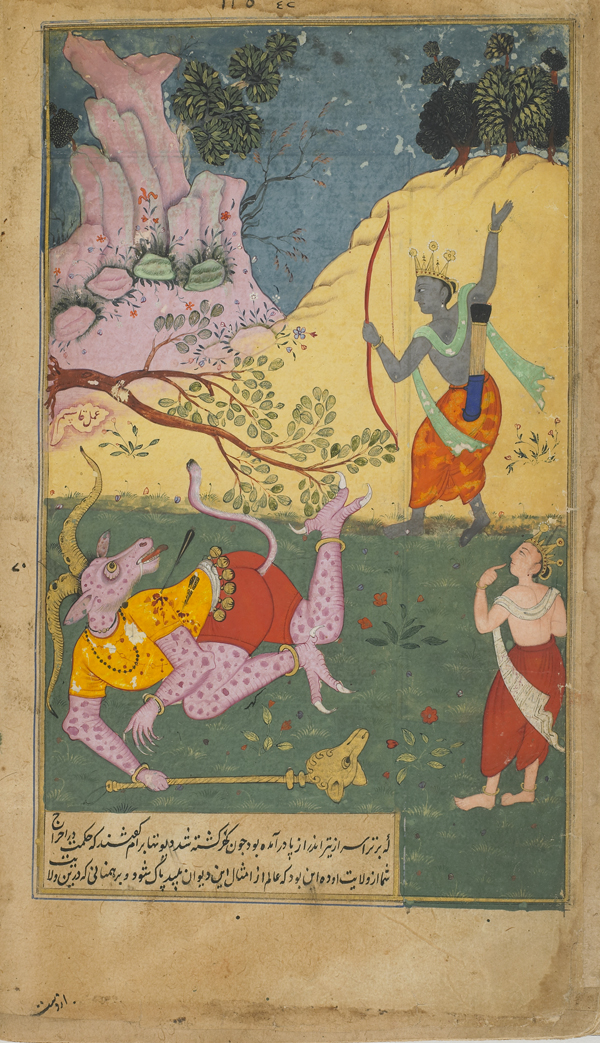 Folio from the Ramayana of Valmiki (The Freer Ramayana), Vol. 1, folio 123; recto: text; verso: Rama strikes down Khara with an arrow 1597-1605 Qasim , (Indian, Mughal dynasty Opaque watercolor, ink, and gold on paper H: 23.1 W: 13.7 cm Northern India Gift of Charles Lang Freer F1907.271.123